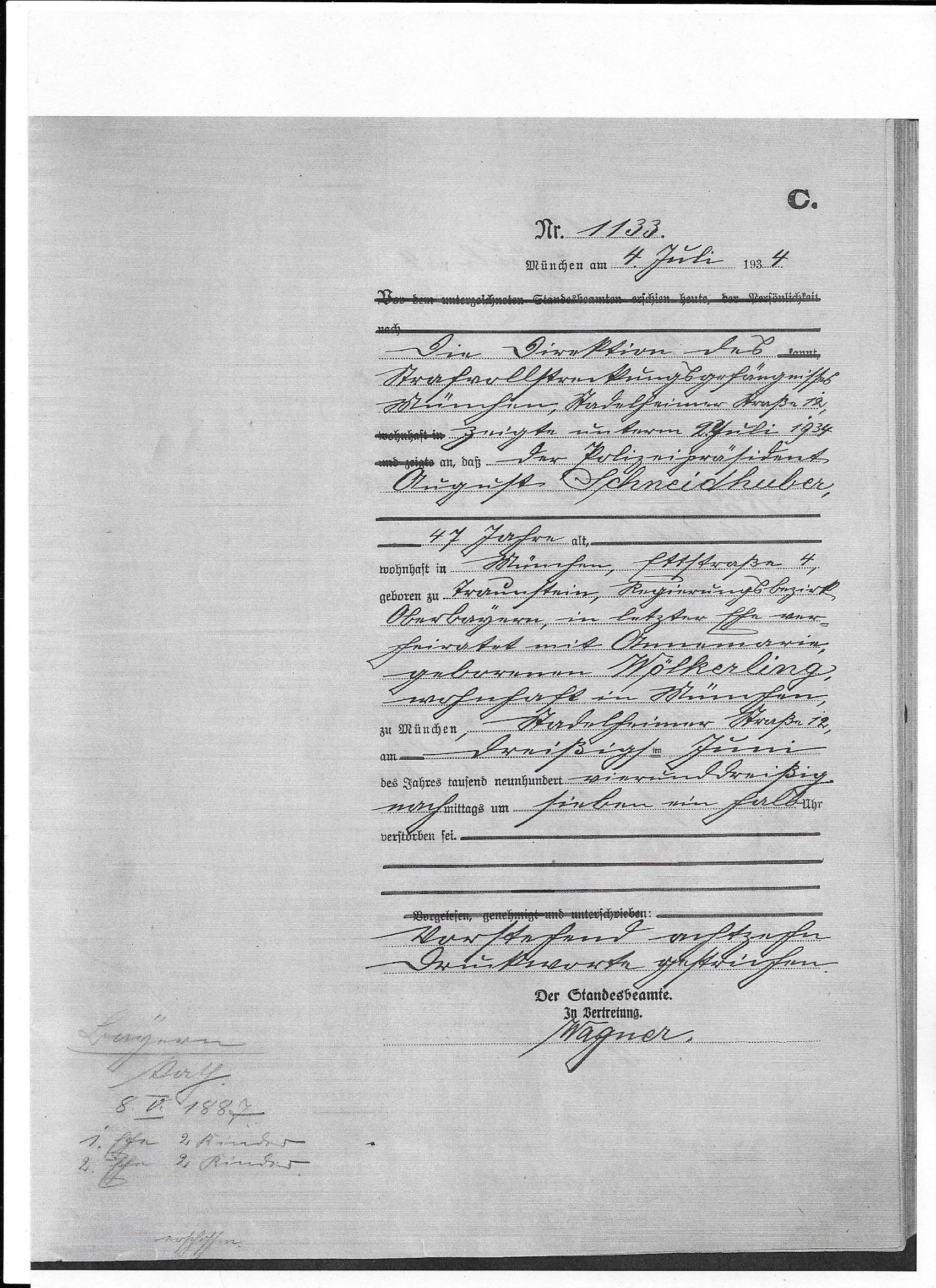 Death certificate of the SA-commander August Schneidhuber (187-1934).